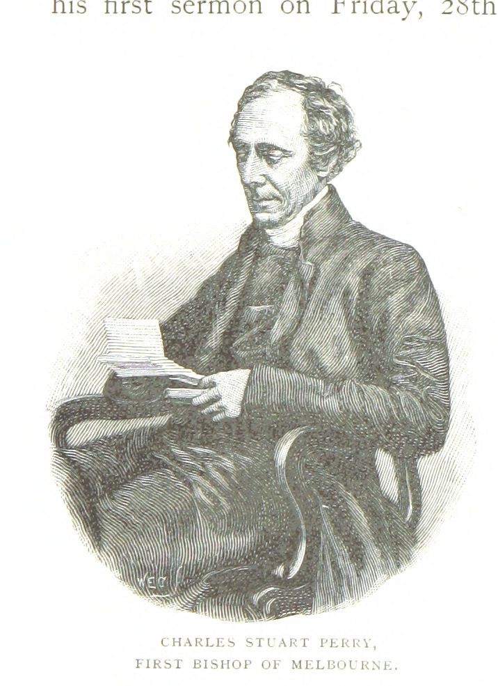 An illustration of Charles Perry, first Anglican bishop of Melbourne, Australia.